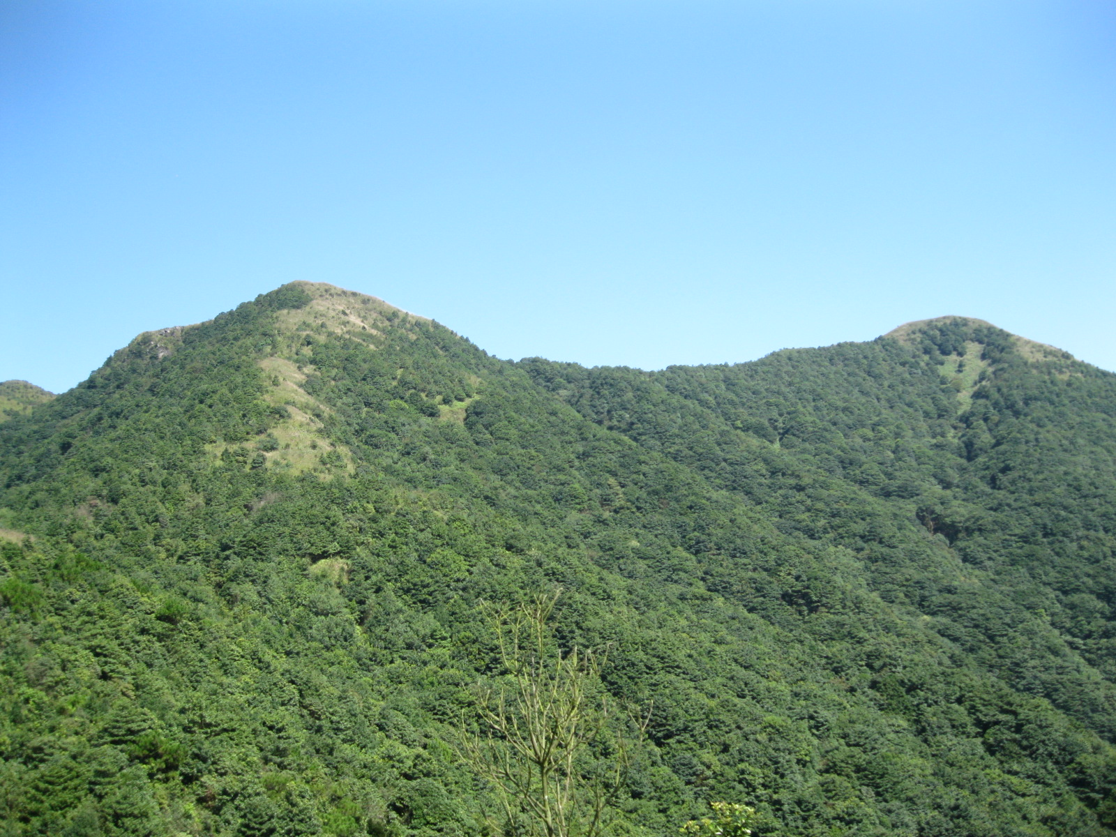 Tiantang Peak (meaning Peak of Paradise in Chinese), which stands 1,210 meters above sea level, is the highest mountain in Canton, China.